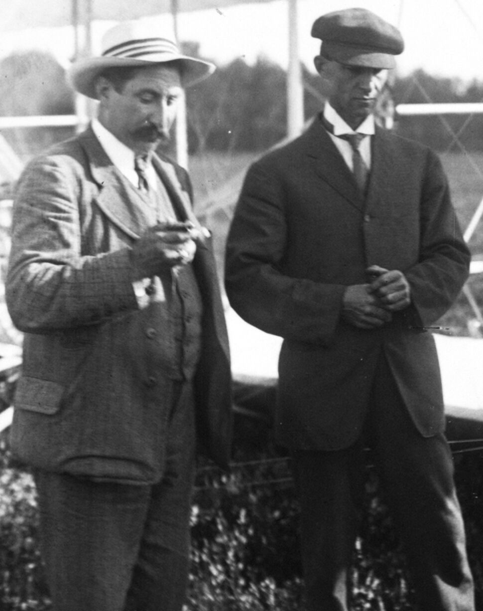 Hart O. Berg(1865-19??) (left), the American business agent in France for the Wright brothers, with Wilbur Wright (1867-1912) at Le Mans Aeroclub in 1908. (Berg in this photo was previously misidentified as French inventor and automobile manufacturer Léon Bollée, 1870-1913. In the uncropped source photo at the Bibliothèque Nationale de France online, four people are shown, and Bollee is at the far right, but his face is mostly unseen because of his position. Photo is at URL shown below.)